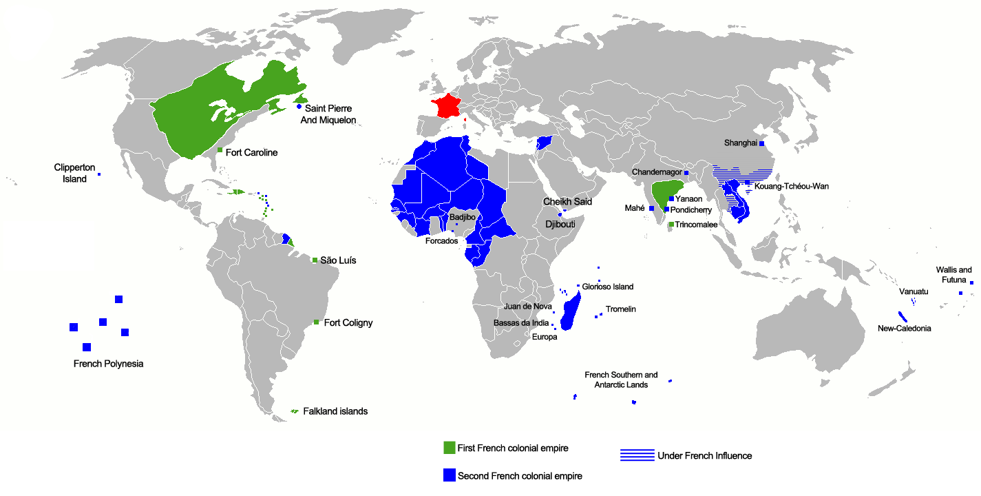 Map showing the first and second french colonial empires,along with the influence they had.